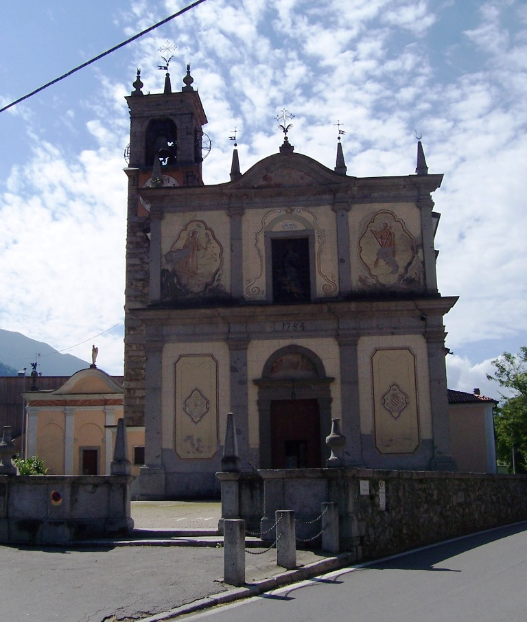 Church of San Lorenzo. Sonico, Val Camonica